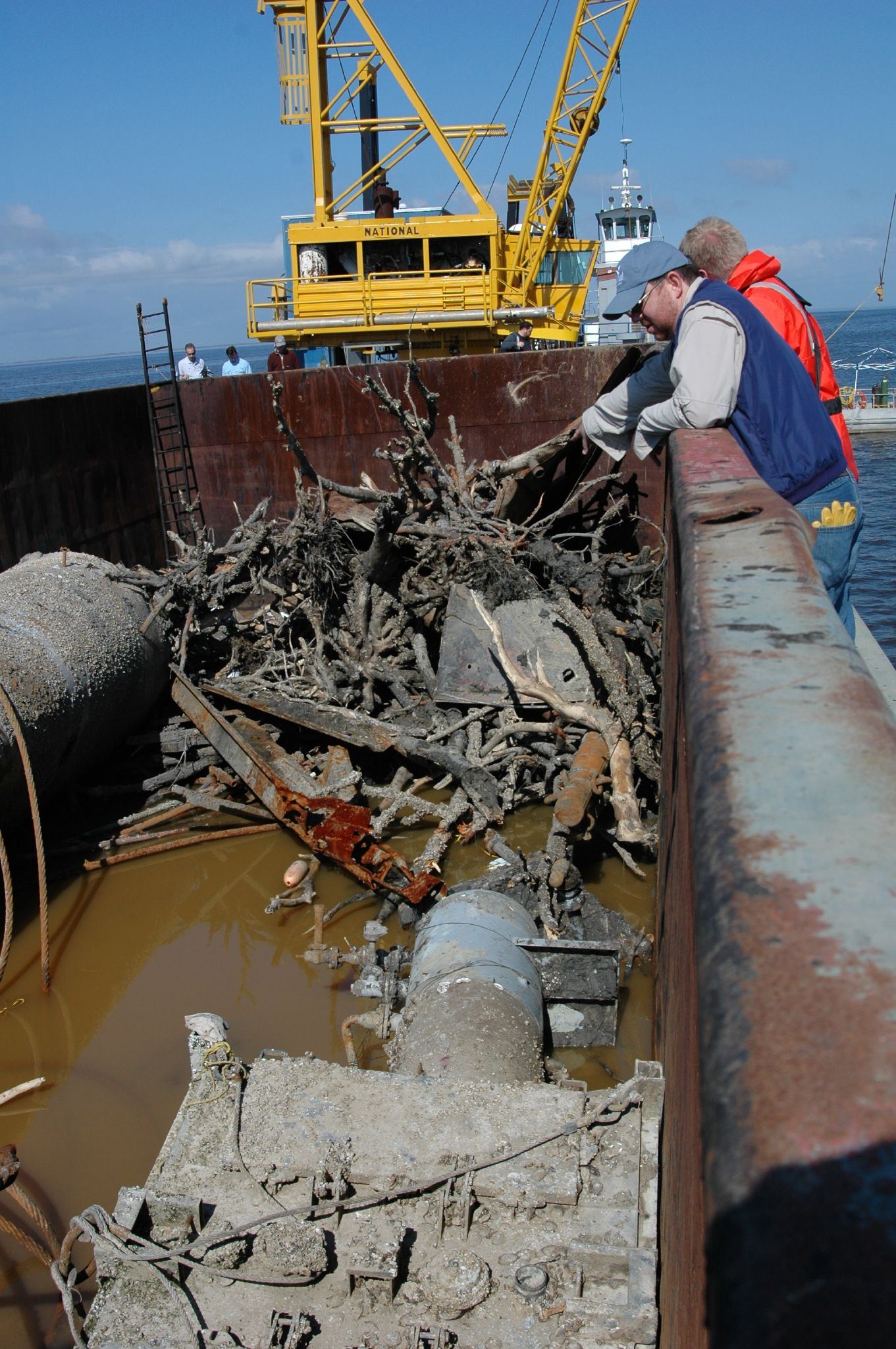 Marine debris being removed from Lake Calcasieu, Louisiana